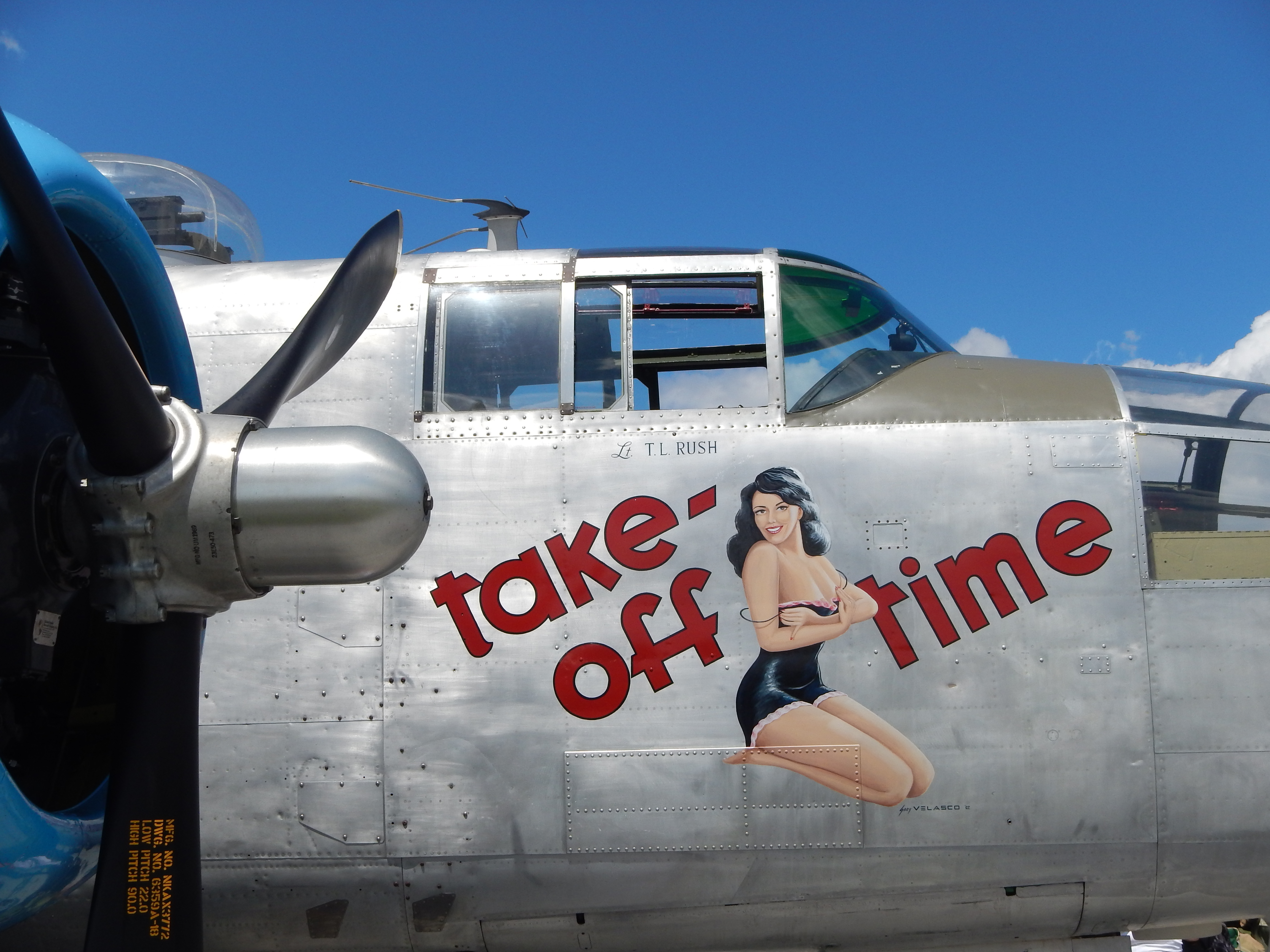 Nose art on the B-25J Take-off Time , 6 June 2015